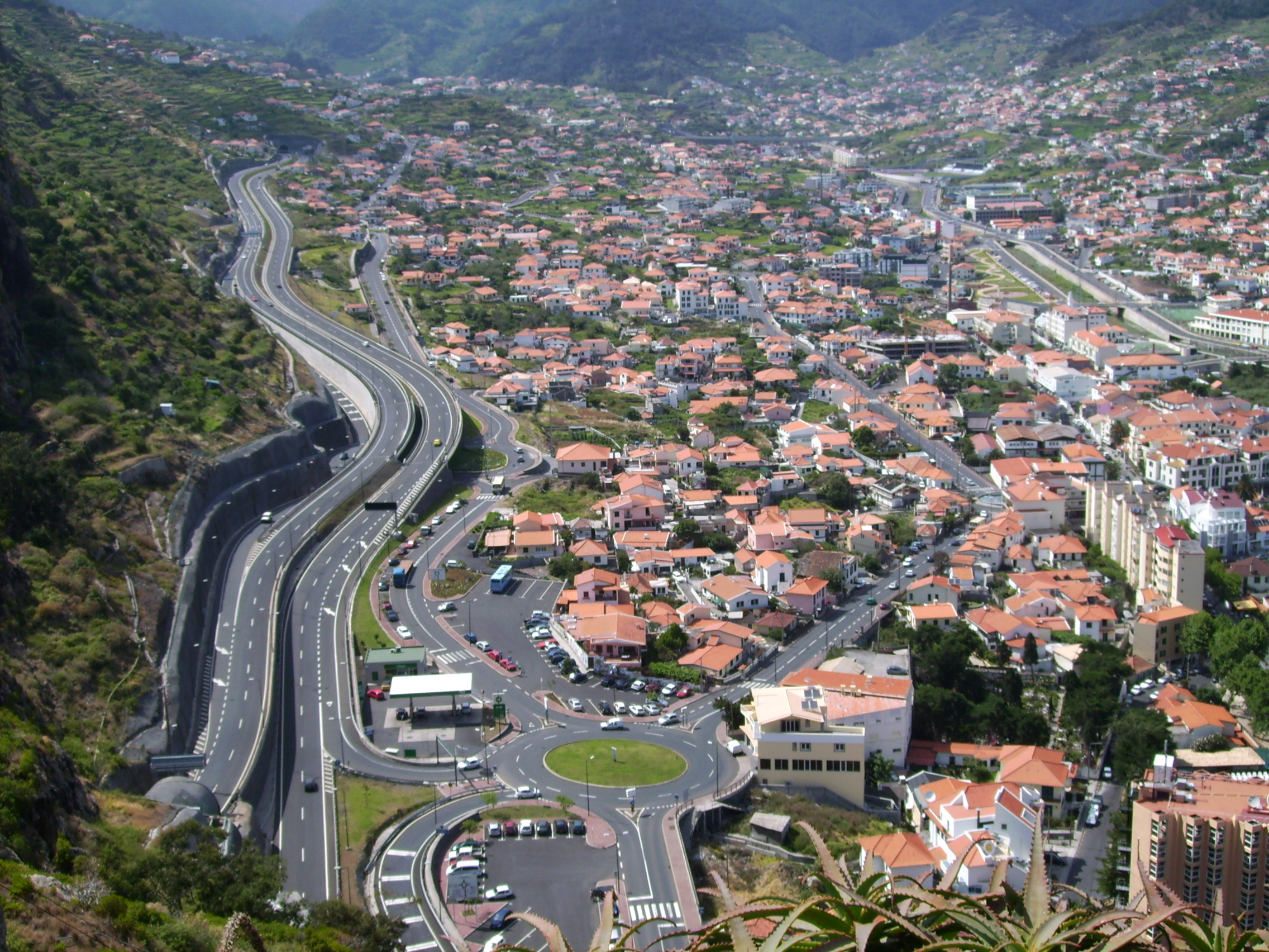 View to Machico in Madeira, Blick auf Machico in Madeira